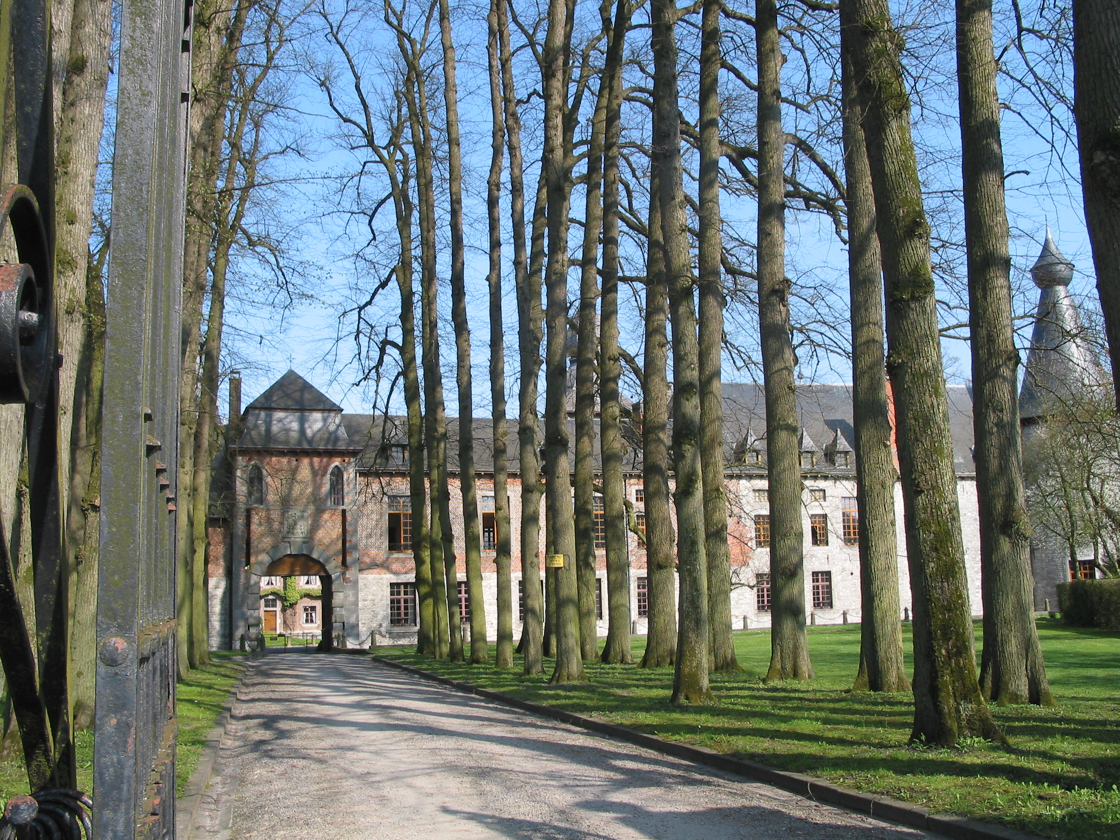 Bioul (Belgium), the entrance to the castle.